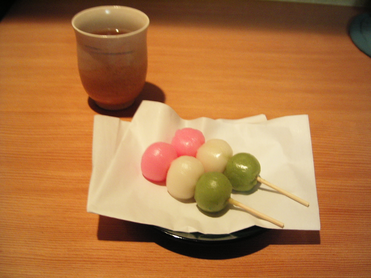 A flower viewing dumpling